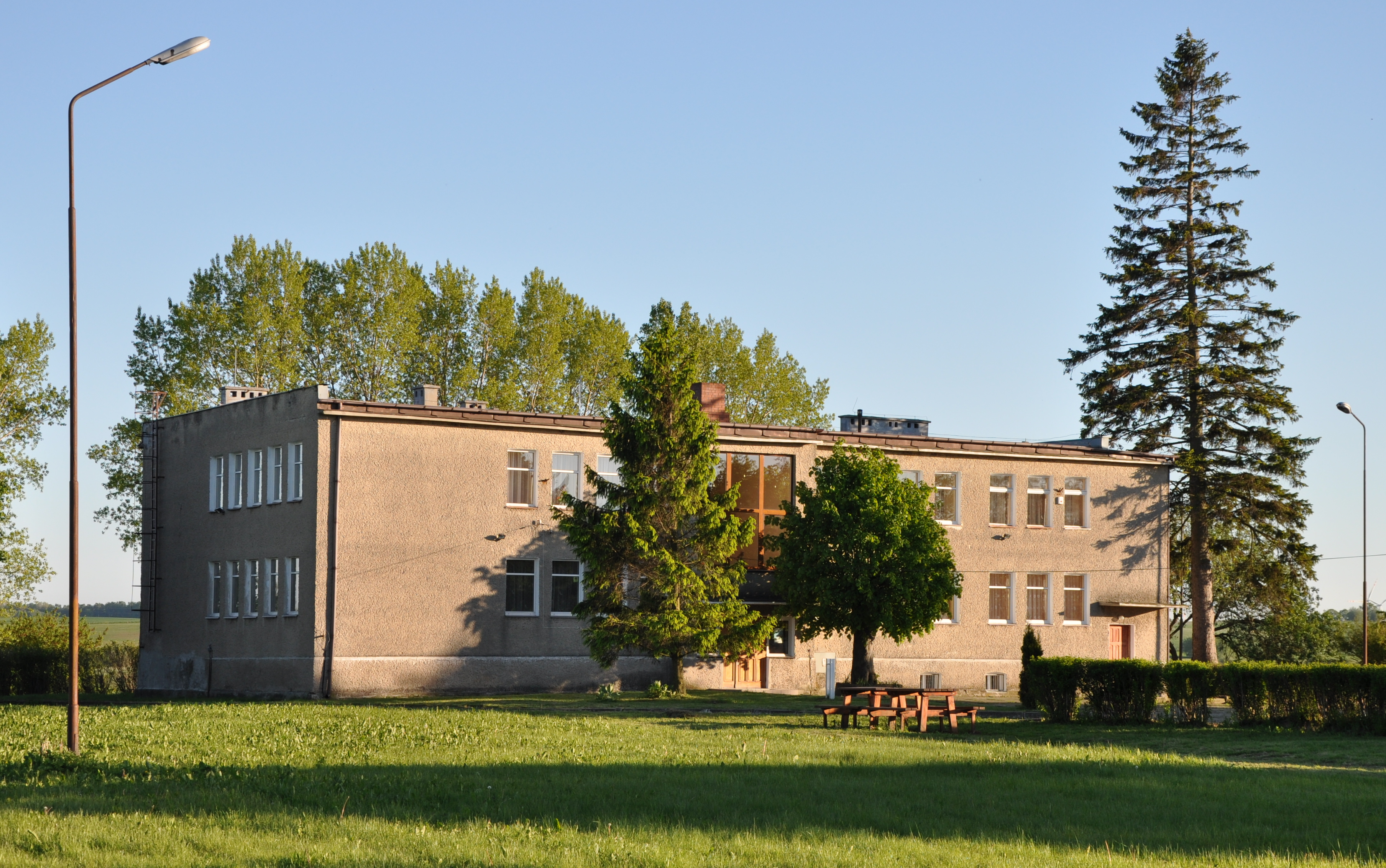 Centre of the social integration in Rogozina, Poland